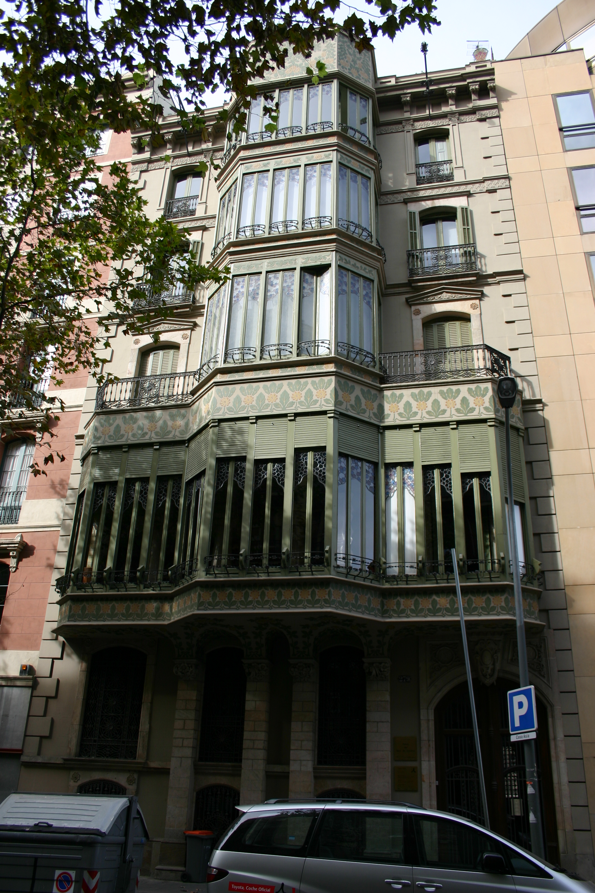 Palau del Baró de Quadras, by architect Josep Puig i Cadafalch, Barcelona